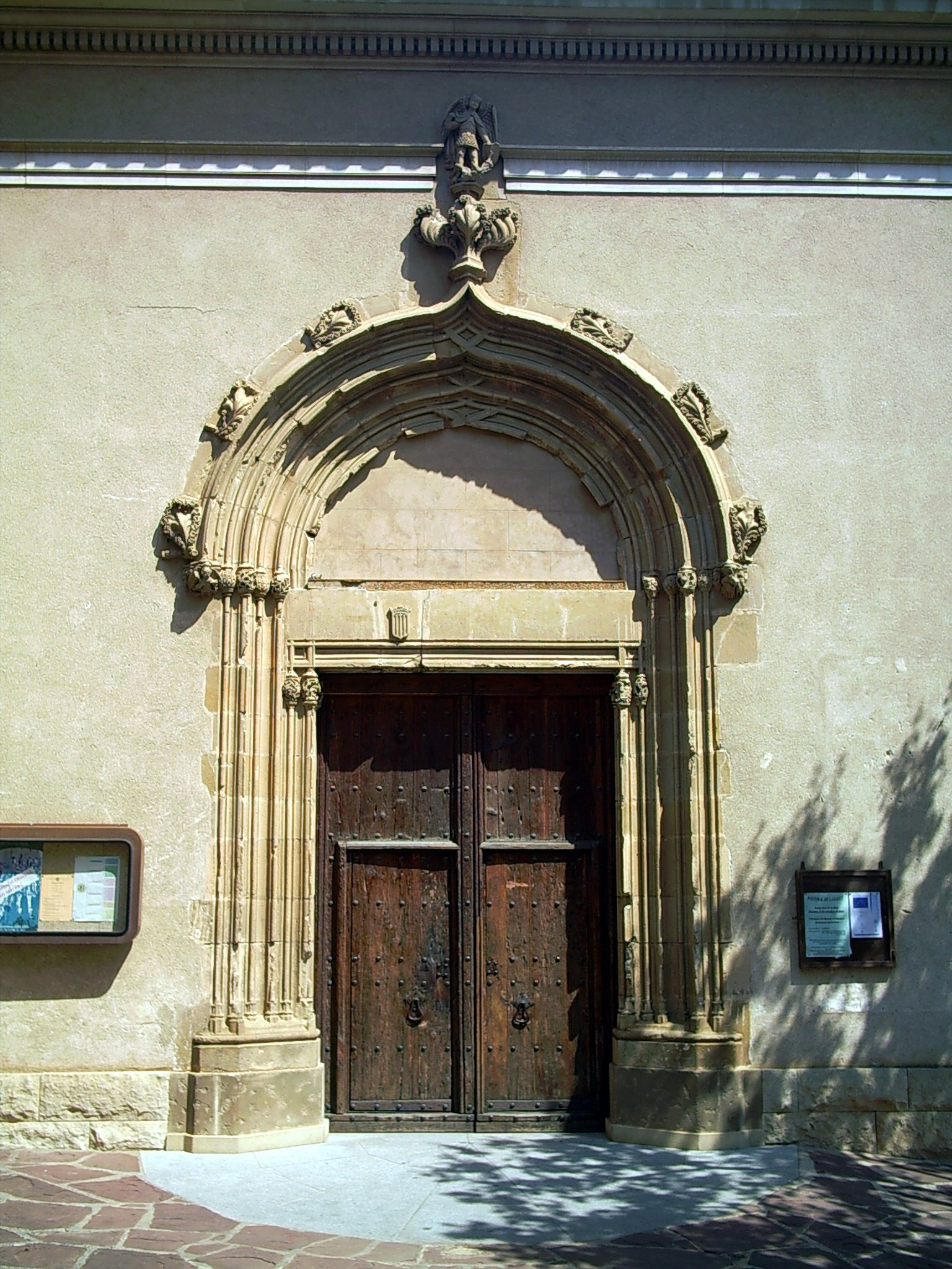 Gothic portal, from 18th century, in the side of the church of Sant Genís, coming from the church destructed in the Spanish Civil War.